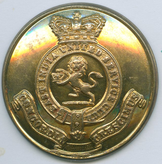 East India United Service Club, London, Servant's button